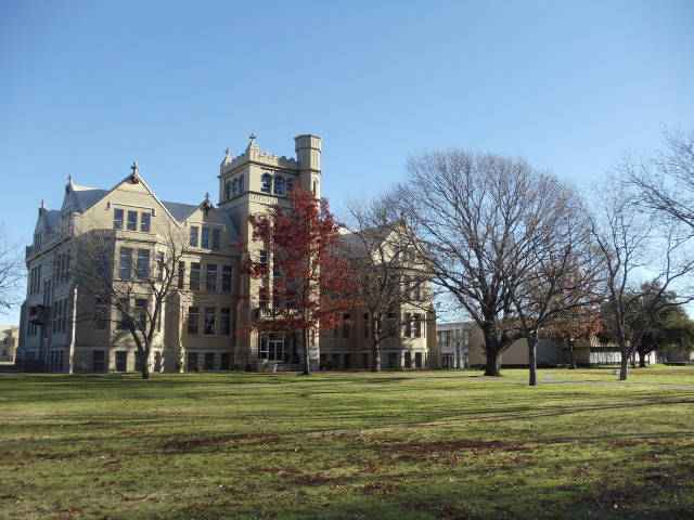 Second Trinity University Campus